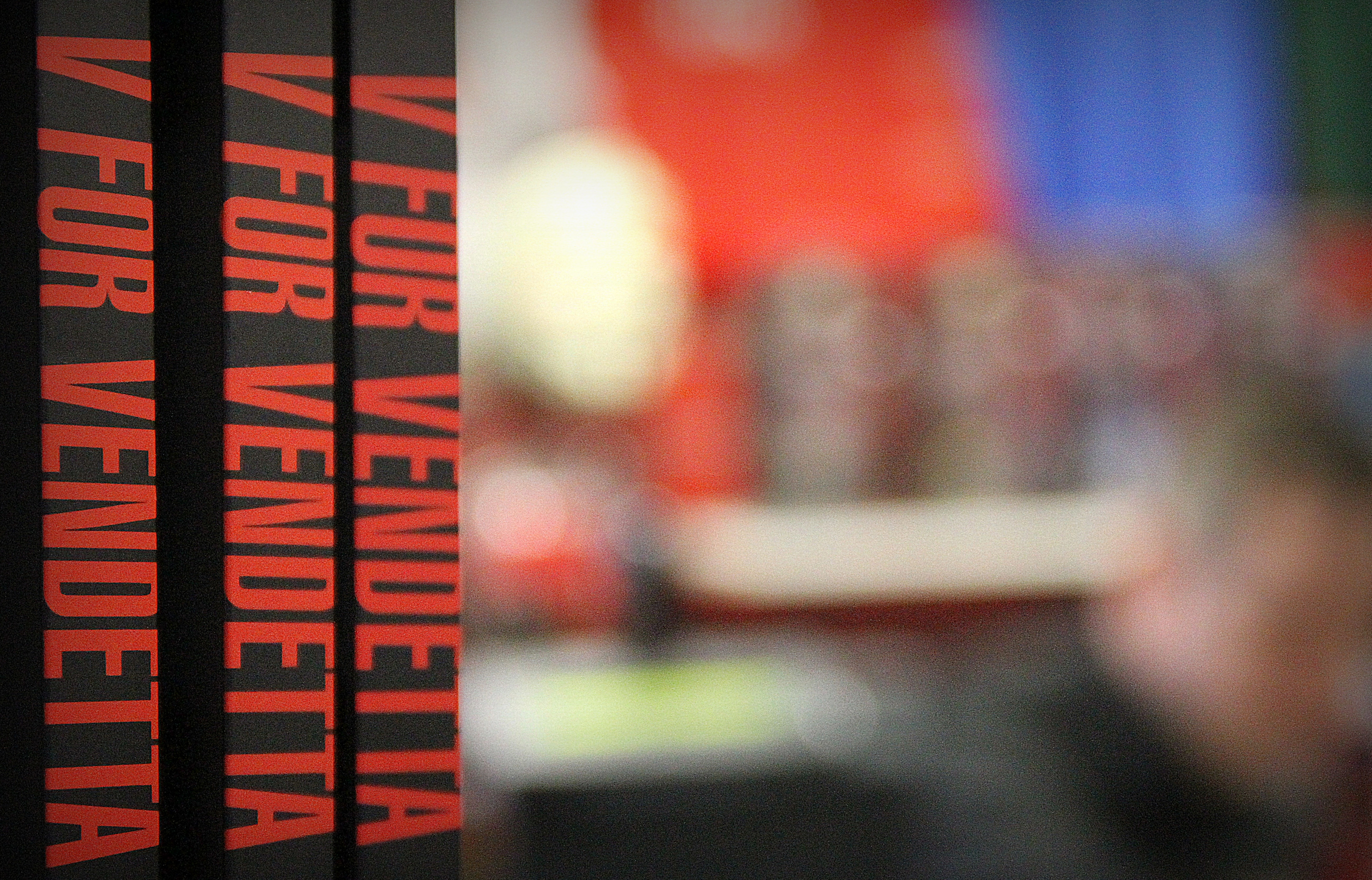 The back cover of the V for Vendetta comic books.